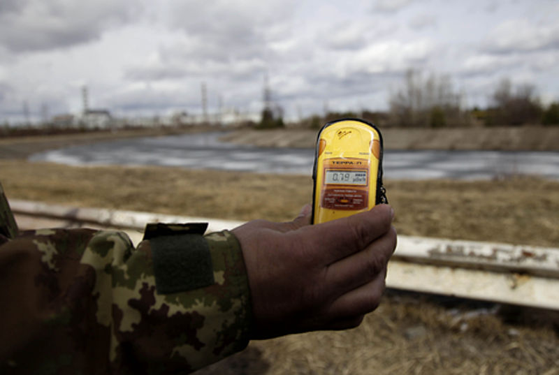 A tour guide measures radiation at the site of Chernobyl.